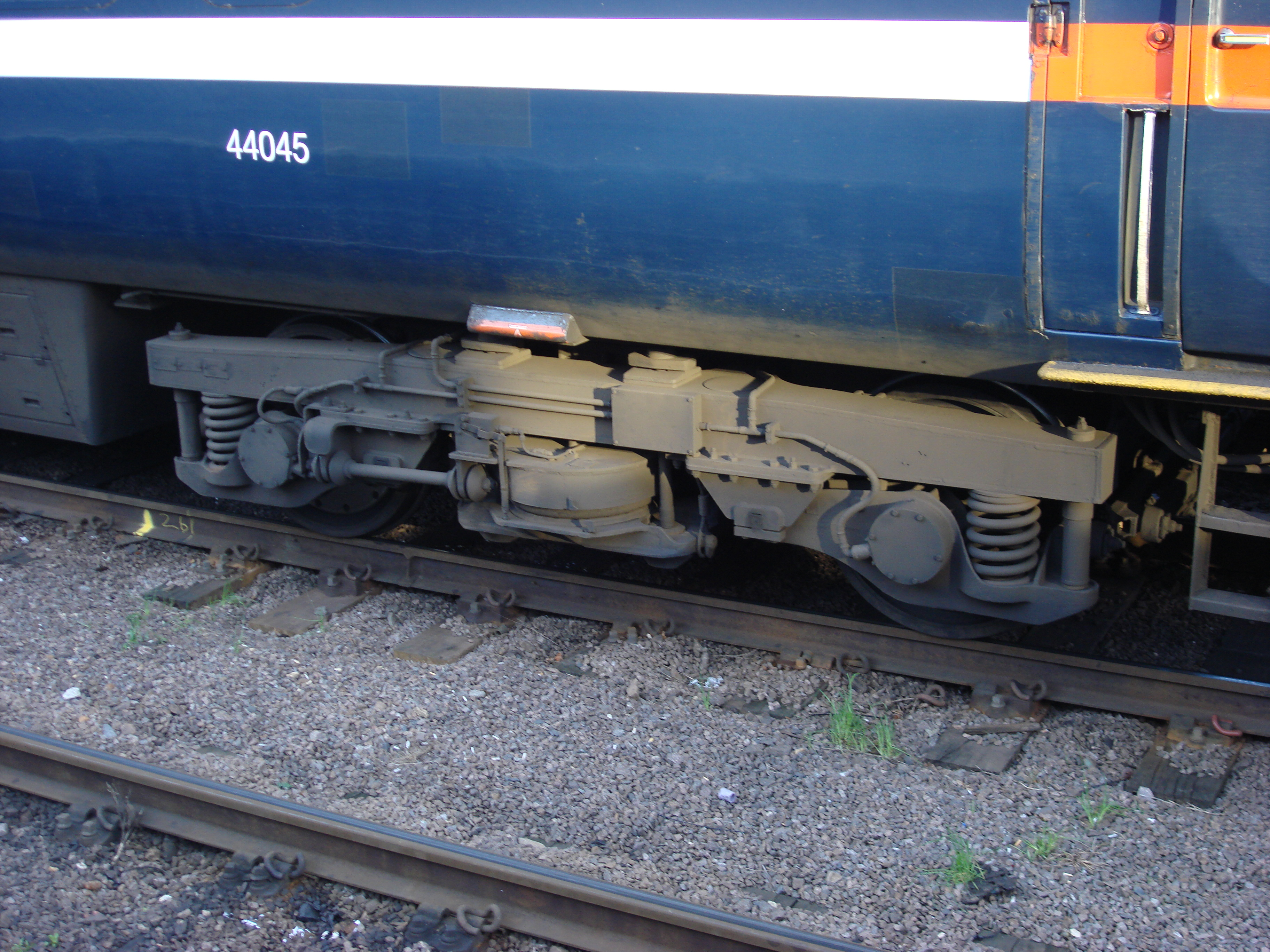 Bogie from British Rail Mark 3 number 44045